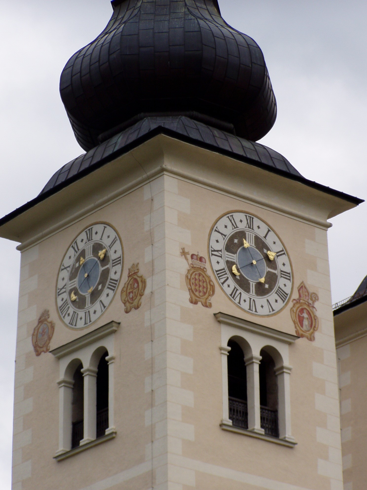 Cathedral of Gurk, tower clock/Dom zu Gurk: Turmuhren